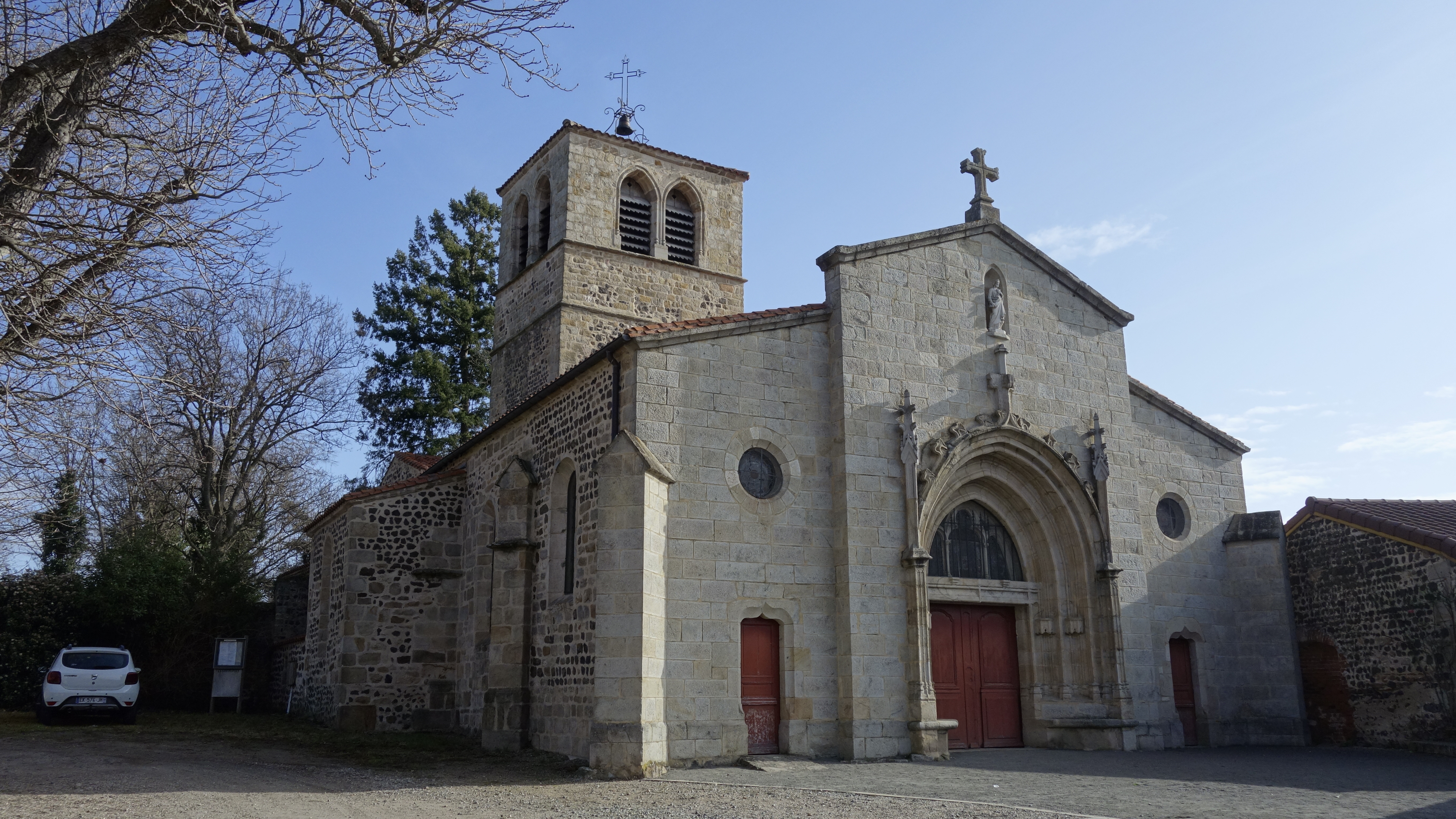 Saint-Cyr Church